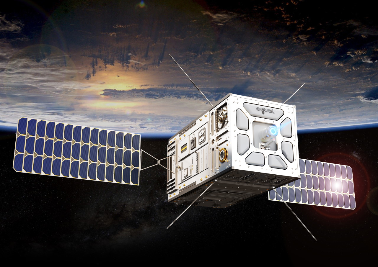 An artistic rendering of a satellite firing with a Exotrail ExoMGTM thruster